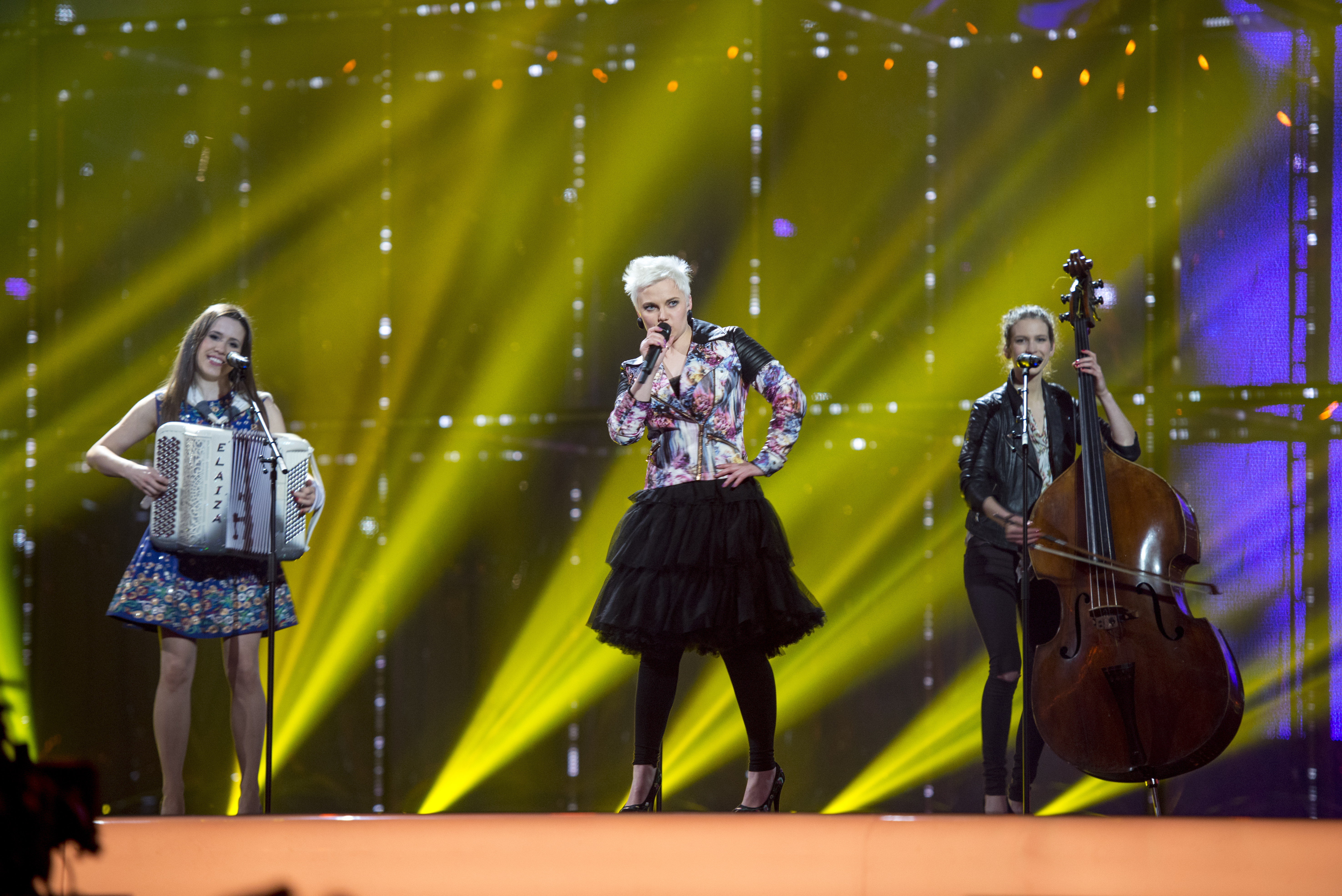 Elaiza representing Germany with the song "Is It Right" during the first dress rehearsal of the final of the Eurovision Song Contest 2014 Copenhagen. (Help translate this text)